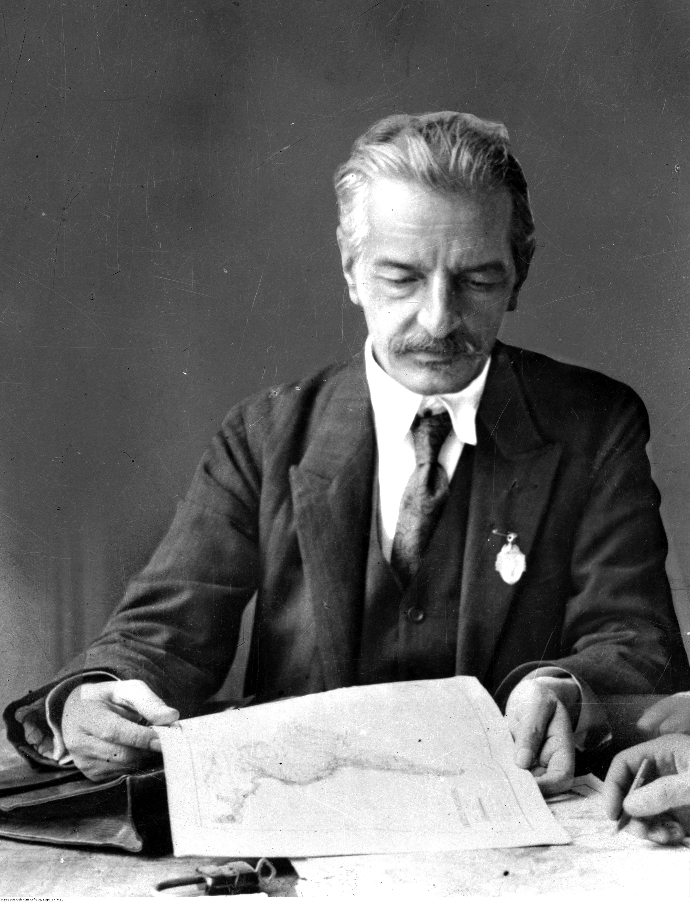 Eugeniusz Romer (1871-1954) . A distinguished Polish geographer, cartographer and geopolitician, whose maps and atlases are still highly valued by Polish experts. Professor of Lwów University (in 1946 also of Jagiellonian University)